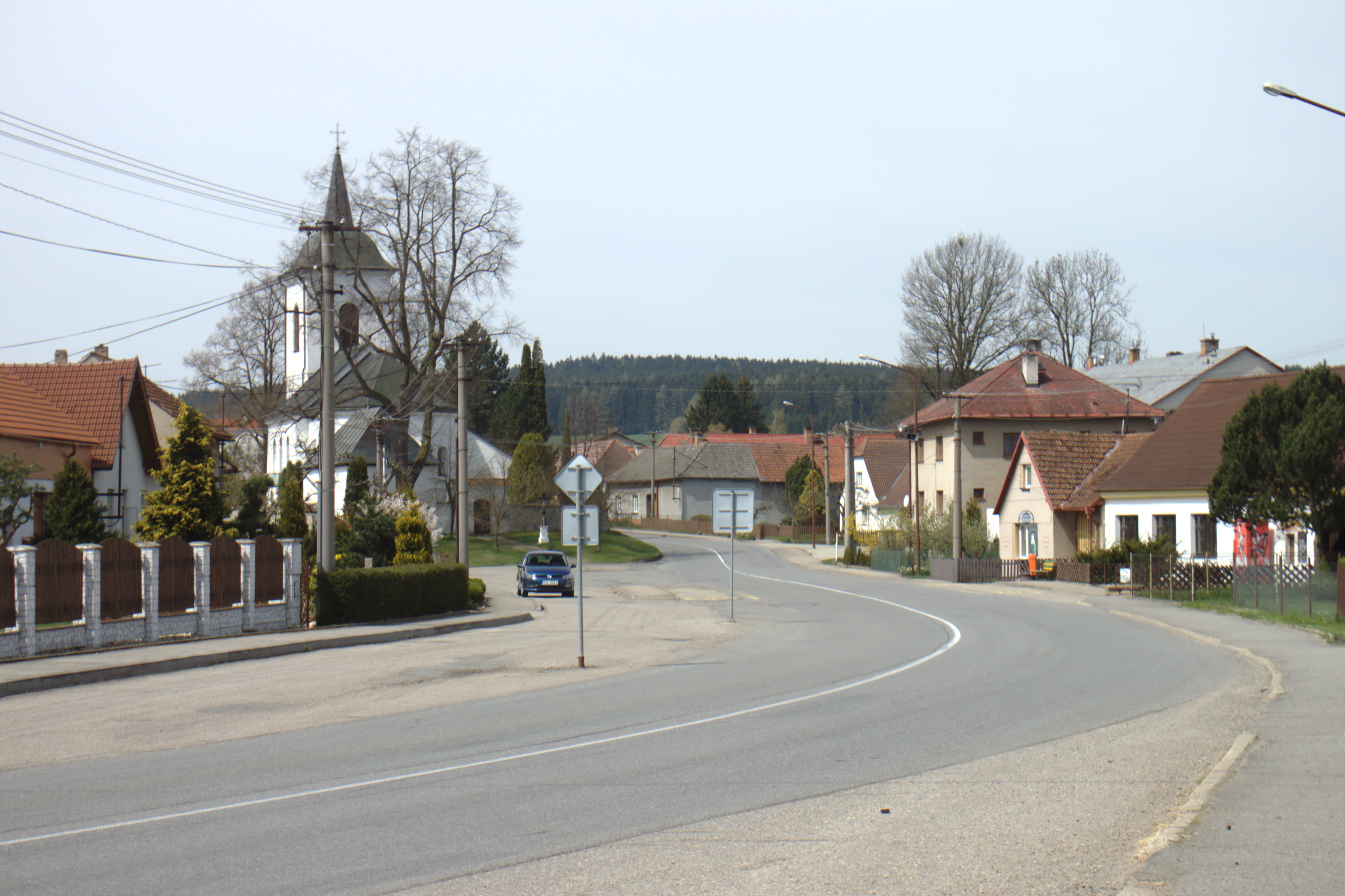 A common in the central part of the village of Ústrašín, Vysočina Region, CZ